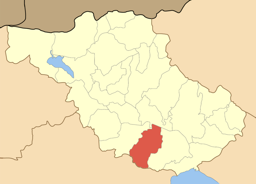 Locator map of Achinos municipality in Serres perfecture in Greece.